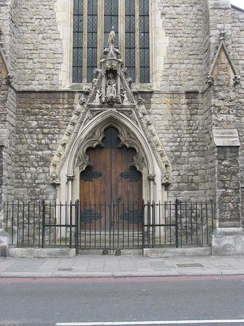 Doorway to Catholic Church, Clapham Park Road, London SW4